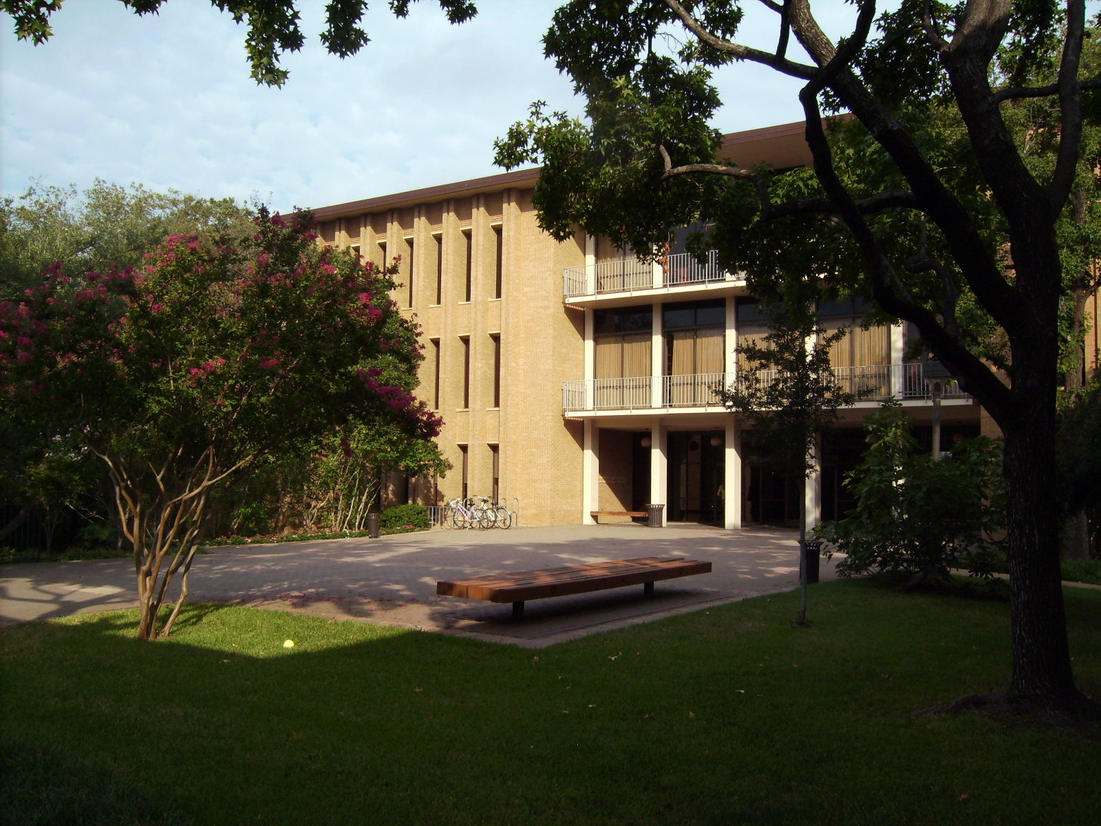 Braniff Graduate Center on the campus of the University of Dallas (Irving, Texas). Architect: O'Neill Ford.